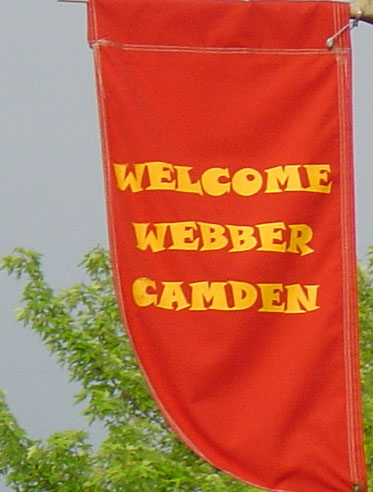 Neighborhood sign for the Webber-Camden neighborhood in Minneapolis. Originally uploaded to Wikipedia by User:Spleebo